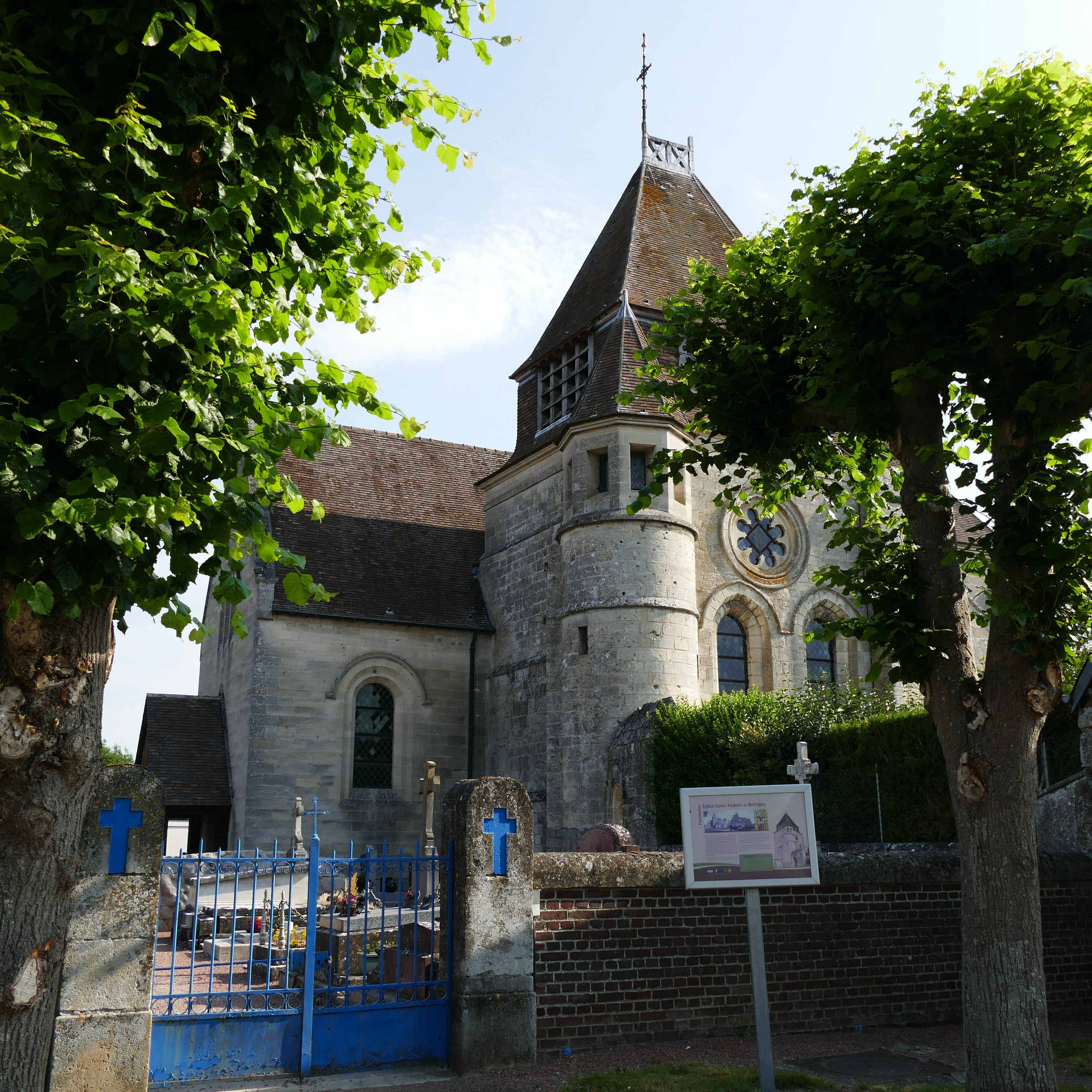 Saint-Hubert's church in Brétigny (Oise, Picardie, France).